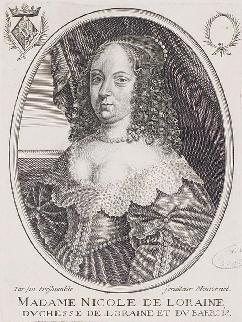 Engraving of Nicole de Lorraine, Duchess of Lorraine in her own right